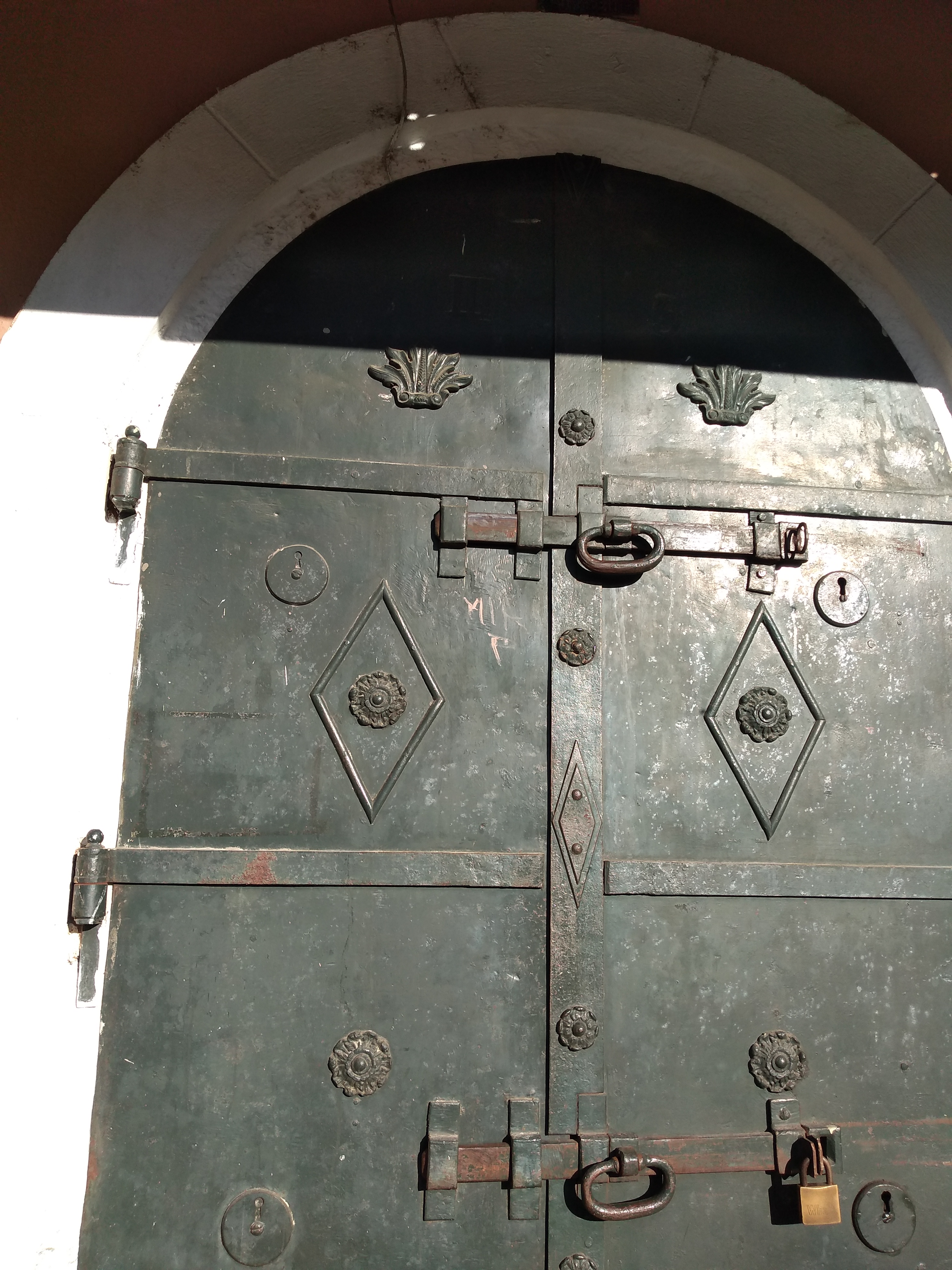 Kujundziluk street in Mostar, Bosnia and Herzegovina Srpski (latinica): Kujundžiluk ulica u Mostaru, Bosna i Hercegovina